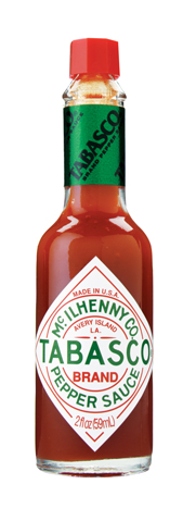 A bottle of Tabasco brand pepper sauce that I myself photographed and cleaned up in Photoshop.